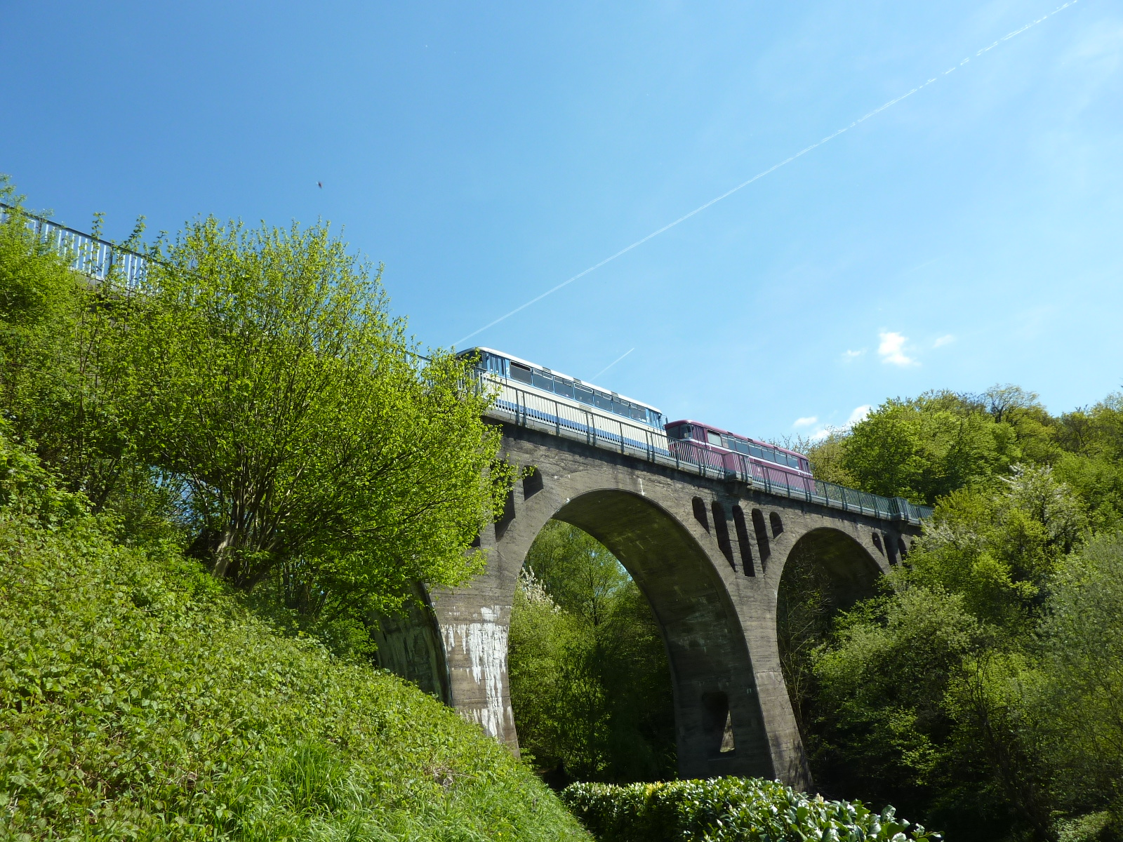 Kasbachtalbahn train on railroad viaduct in Kasbach-Ohlenberg